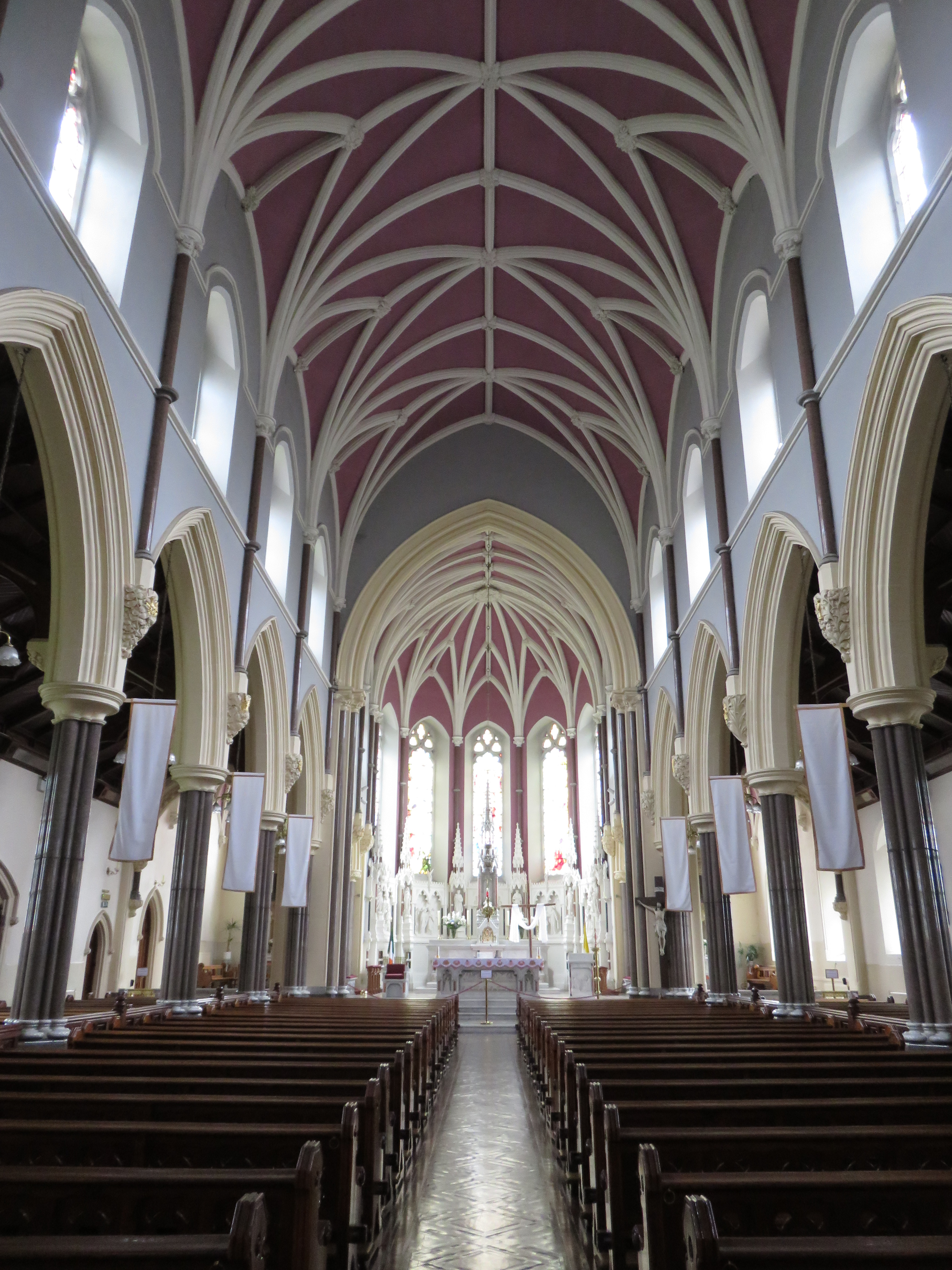 Interior of Church of Saint John the Evangelist in Kilkenny, Ireland in 2018